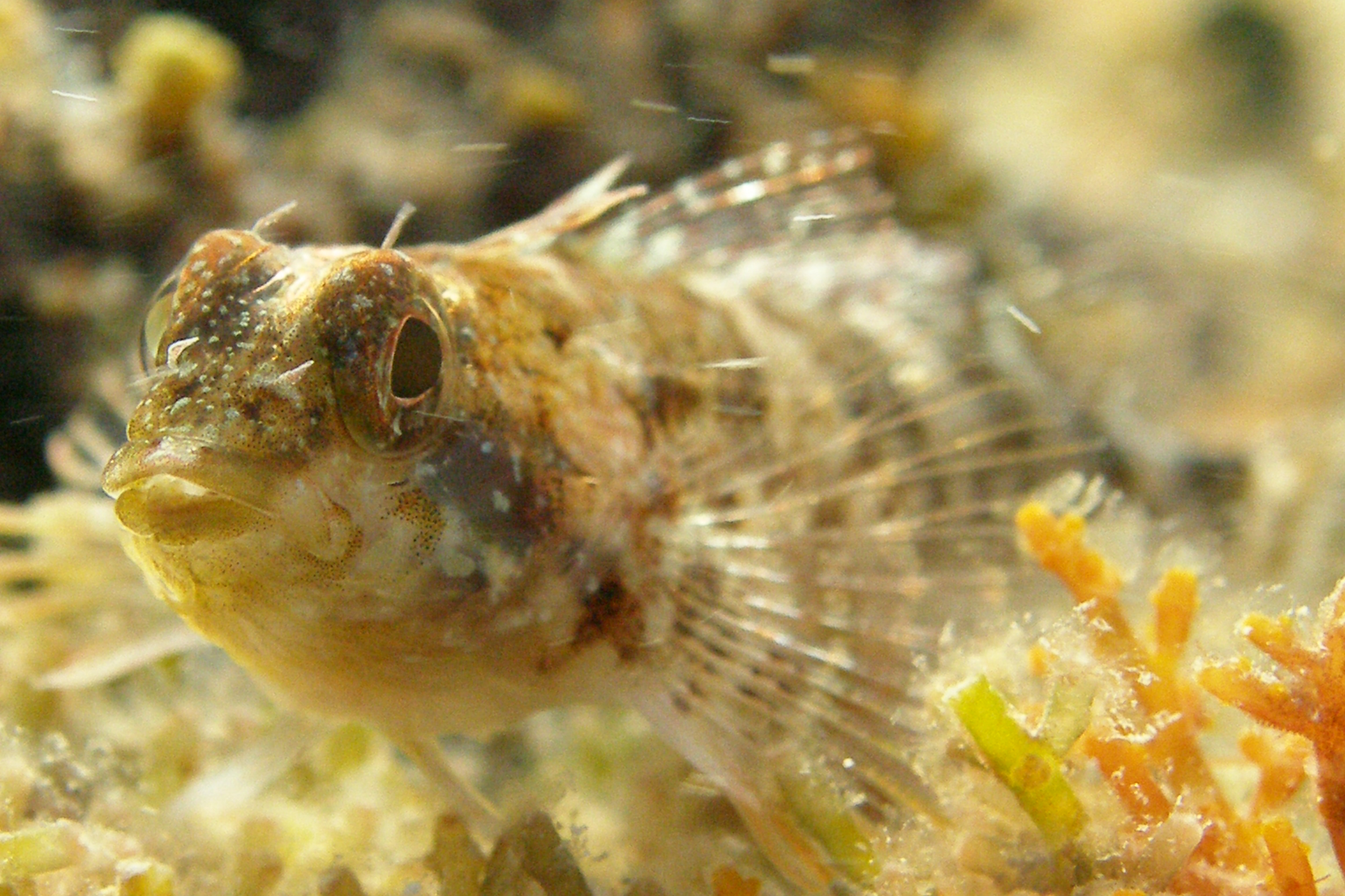 close view of a red-black triplefin